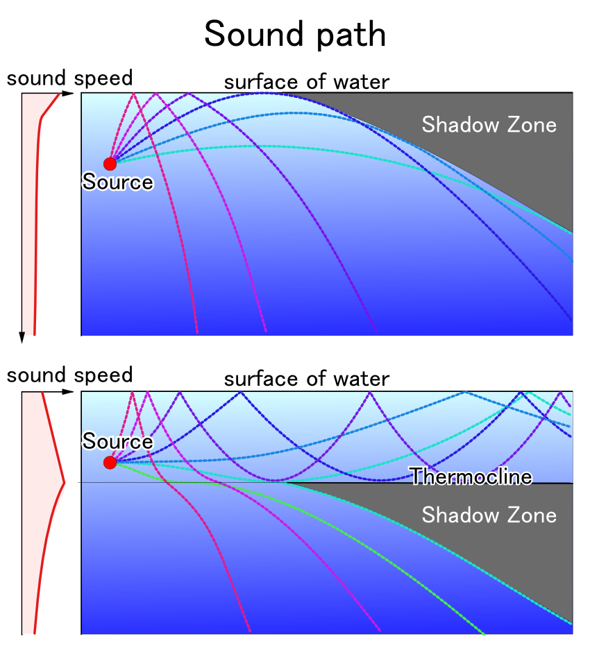 Sonicspeed under the water chart with English